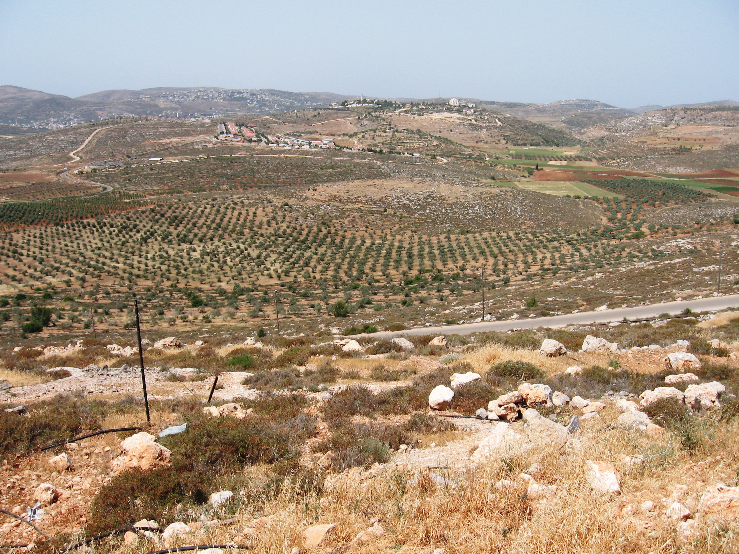 Olive trees at Shiloh bloc, Israel.